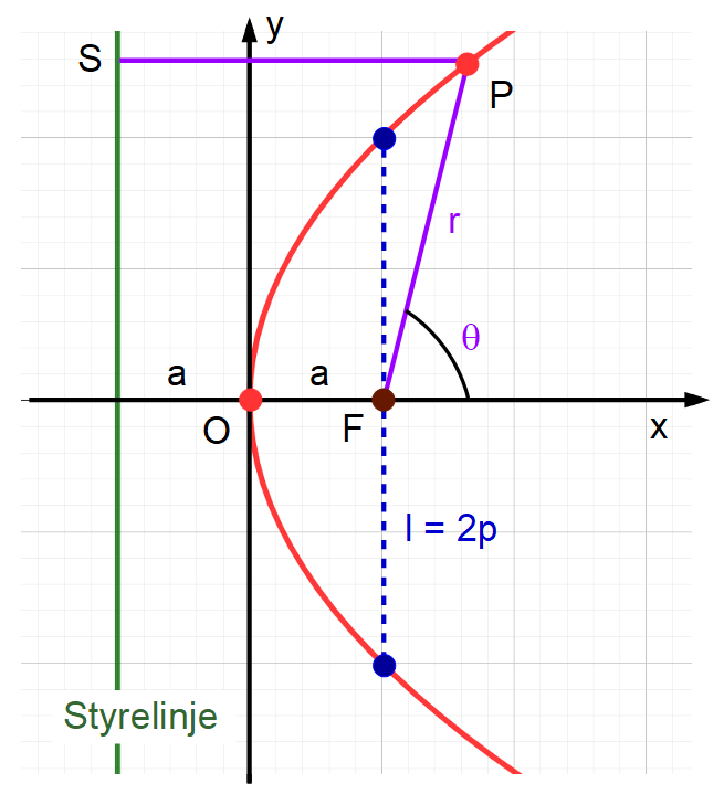 Parameters for a parabola. Norwegian.